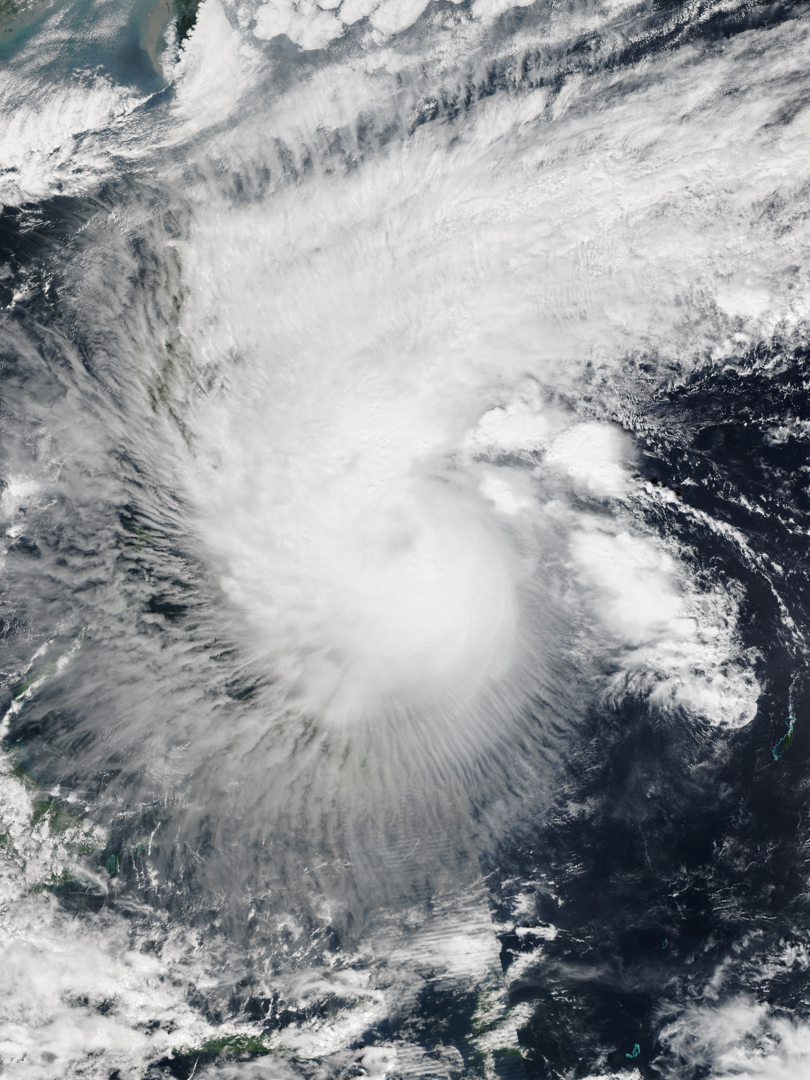 Severe Tropical Storm Mekkhala making landfall over the Philippines on January 17, 2015.